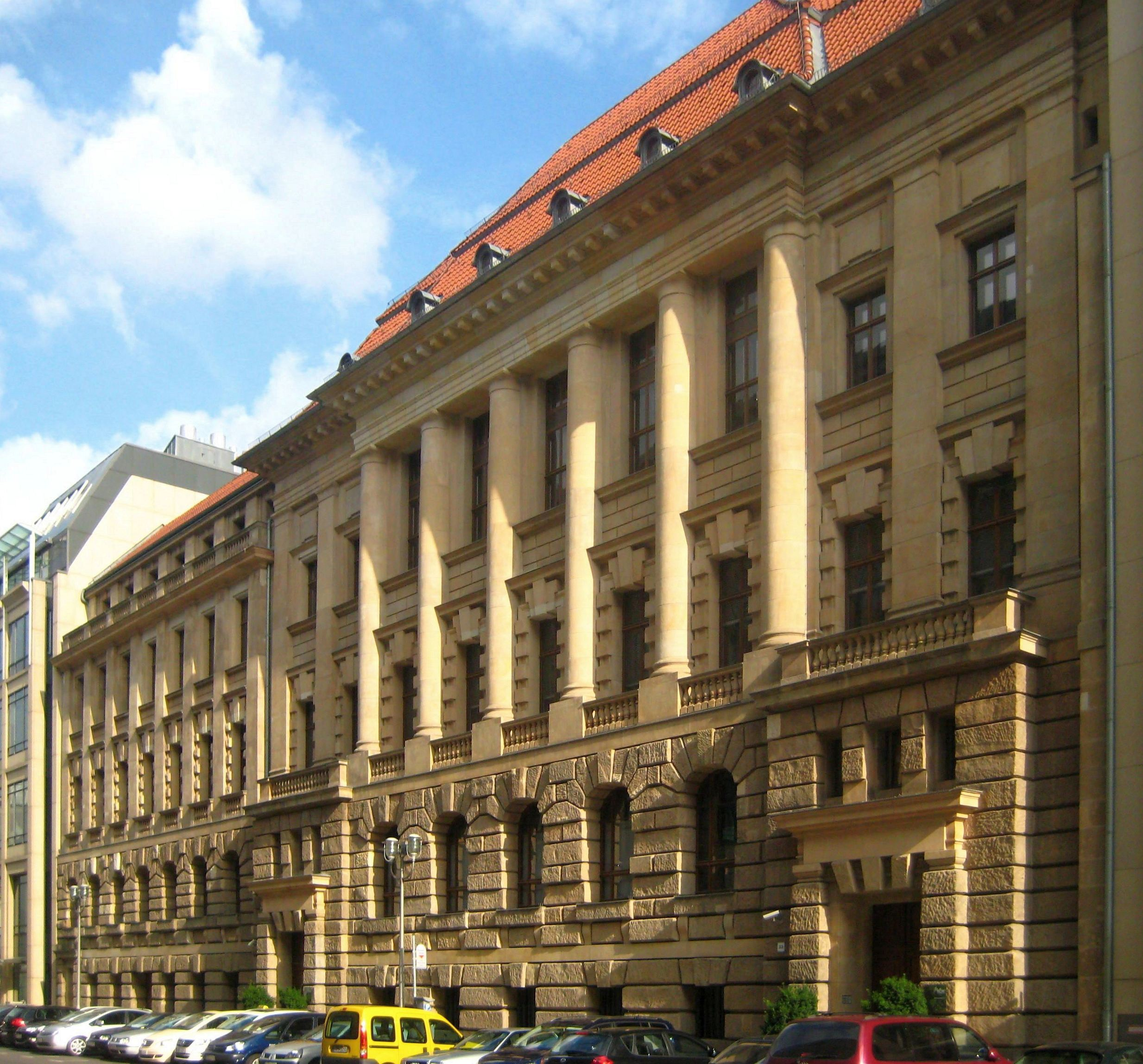 Former building of the Berliner Handelsgesellschaft (Berlin Trading Company) at Behrenstraße No. 32, now used by the Berlin branch of the KfW Banking Group. The complex with two front buildings on Behrenstraße and on Französische Straße was built 1899 to 1900 by Alfred Messel. It is a typical example of the "bank palaces" in the architectural tradition of Italian Renaissance buildings, constructed in Berlin at the time of the German Empire. The distinction between ground floors and main floors (the latter structured by large columns and pillars) is noticeable at the facades. The two front buildings are connected by a tract with a covered walk. The adjacent building at Behrenstraße No. 33 (on the left), built 1905 to 1907 by Messel, used to be the private residence of Carl Fürstenberg, under whose directorship the Handels-Gesellschaft became one of Germany's leading banks. In 1911, Heinrich Schweitzer constructed an annex to the bank building at the corner of Charlottenstraße and Französische Straße. From 1949 to 1990, the complex was seat of the East German State Bank. It has been designated as a historic landmark.